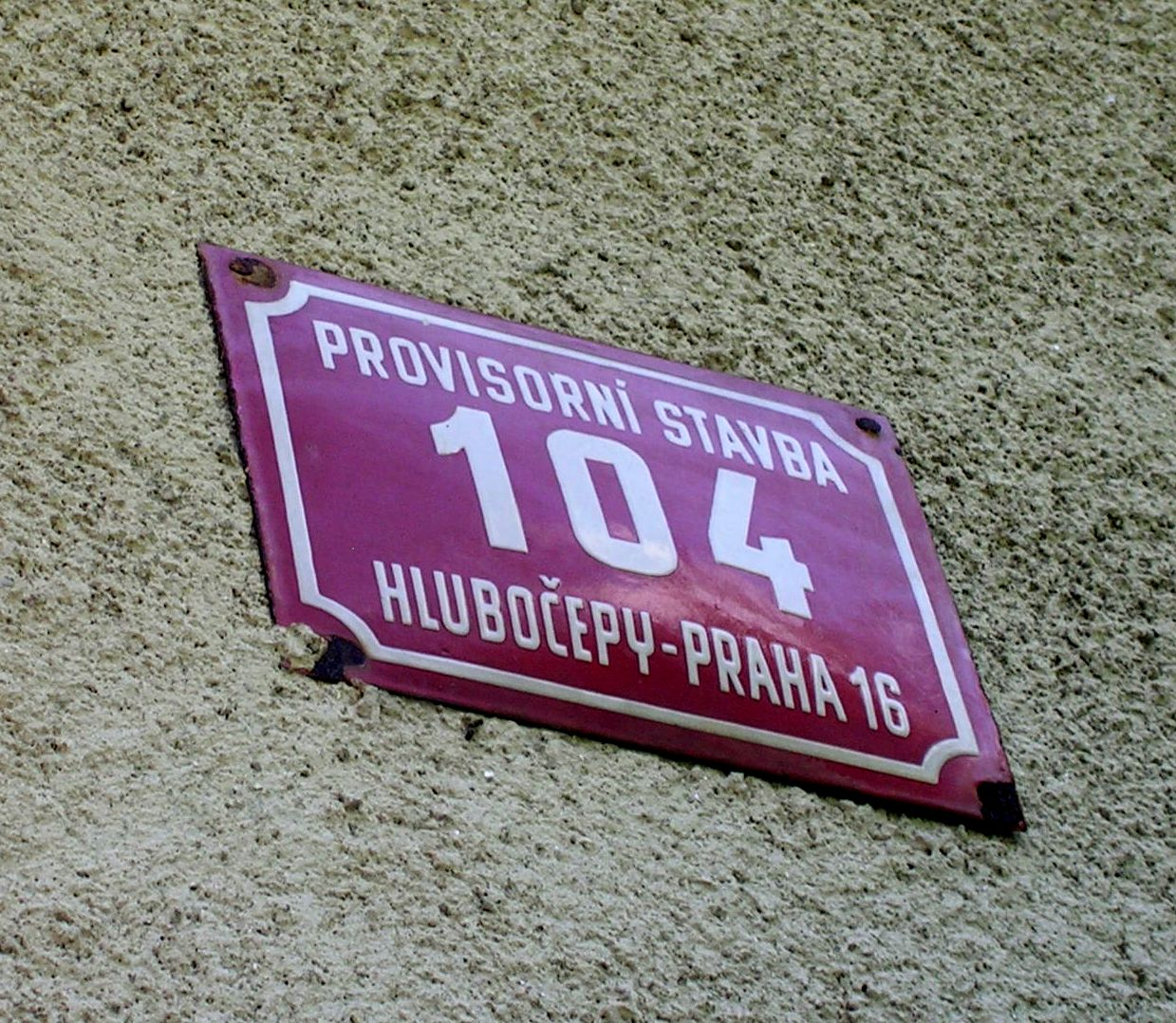 Hlubočepy, Prague, the Czech Republic. A house number in Daleje Valley.